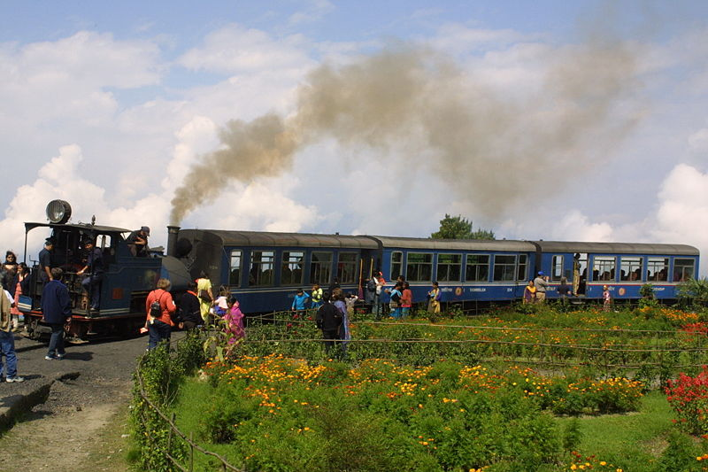 the page in flickr